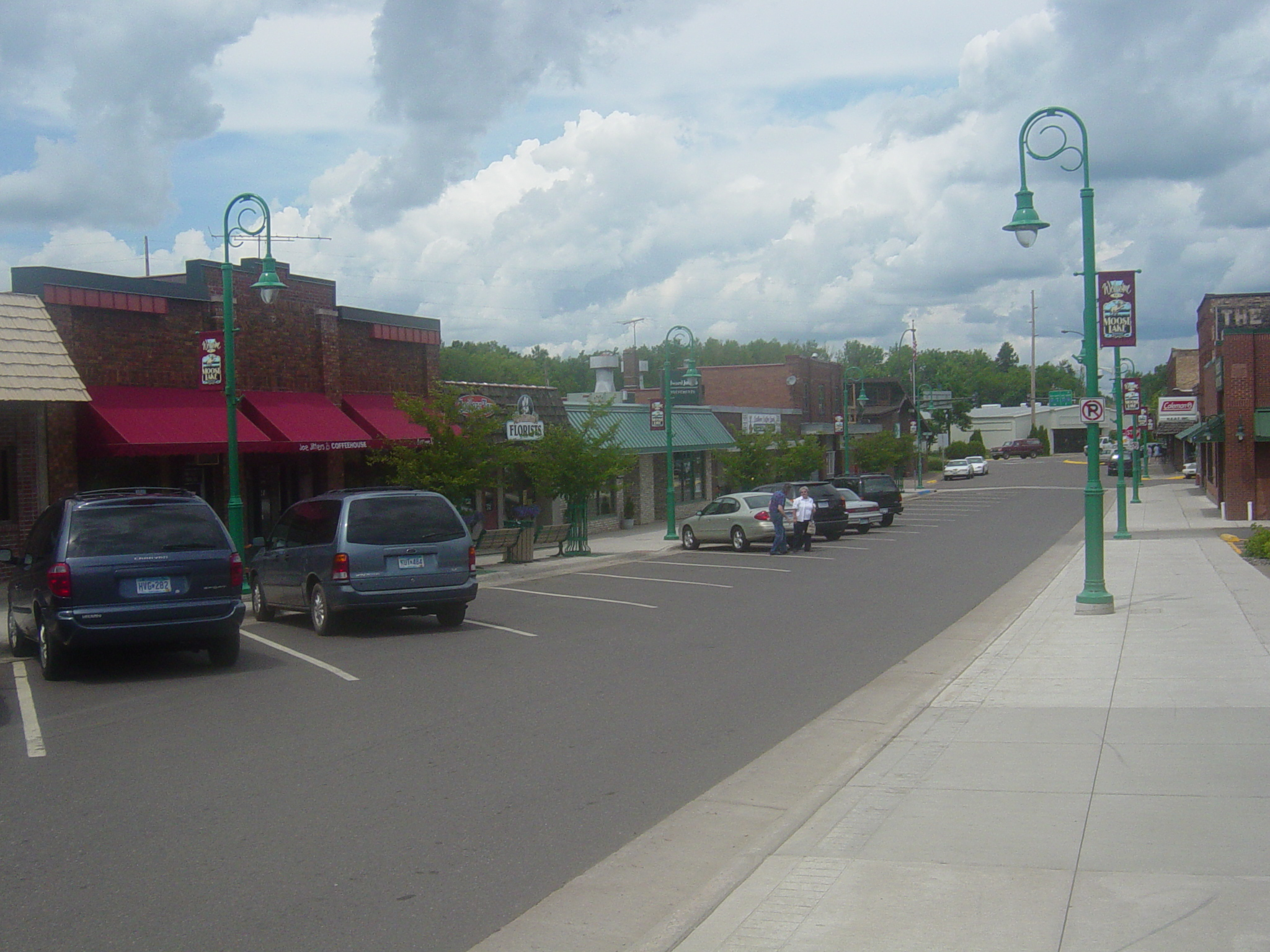 Downtown Moose Lake, MN. Taken on June 24, 2006 by submitter. Transparent blotch on camera lens.